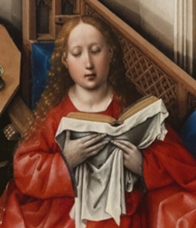 The Mérode Altarpiece (or Annunciation Triptych) is an oil on oak panel triptych attributed to the workshop of the Early Netherlandish painter Robert Campin. For a period in the late 19th century Roger van der Weyden was attributed, or at least an artist familiar with the outline of Liège, in today's Belgium. It is housed at The Cloisters, in New York.